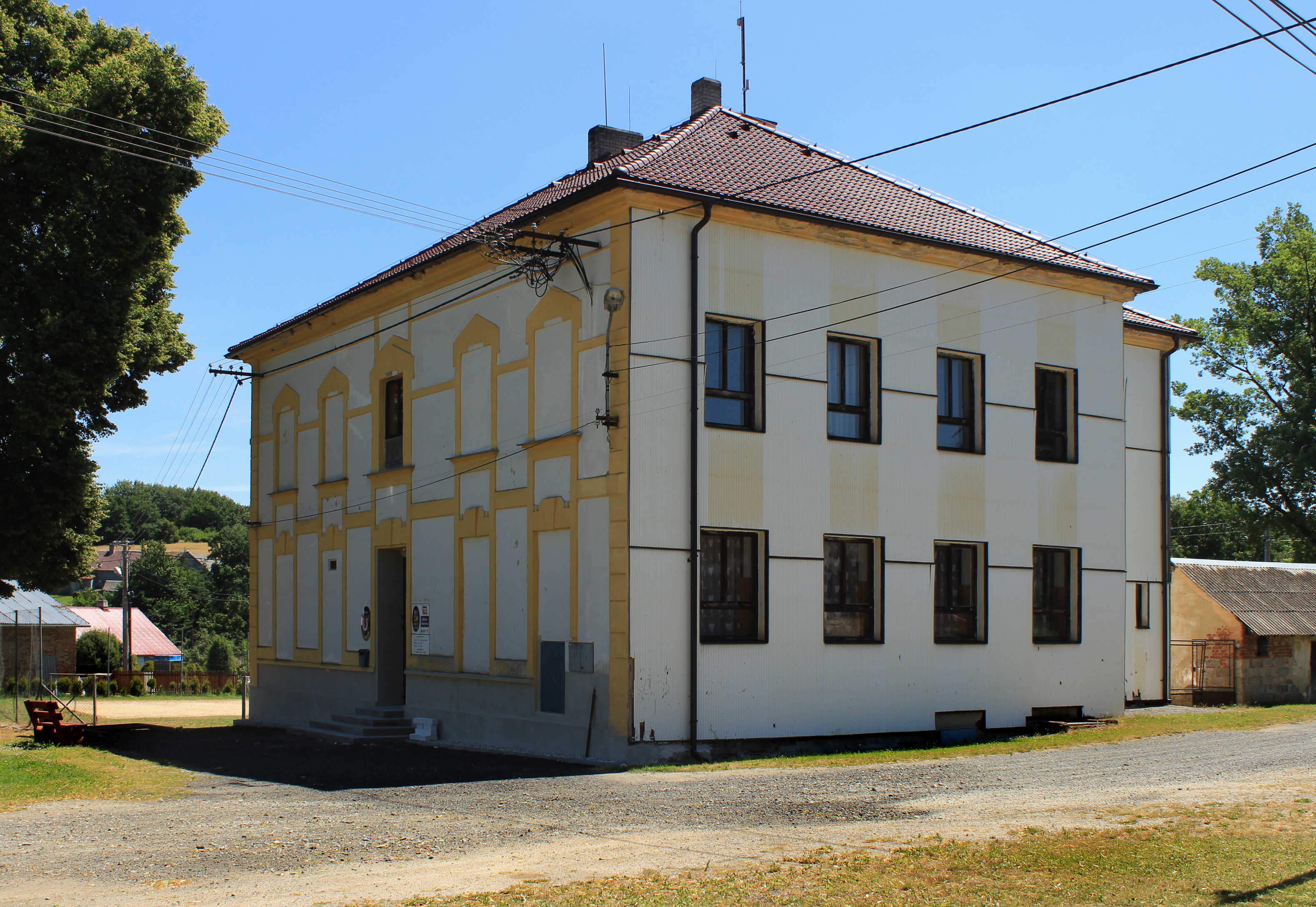 Municipal office in Drahotín, Czech Republic.